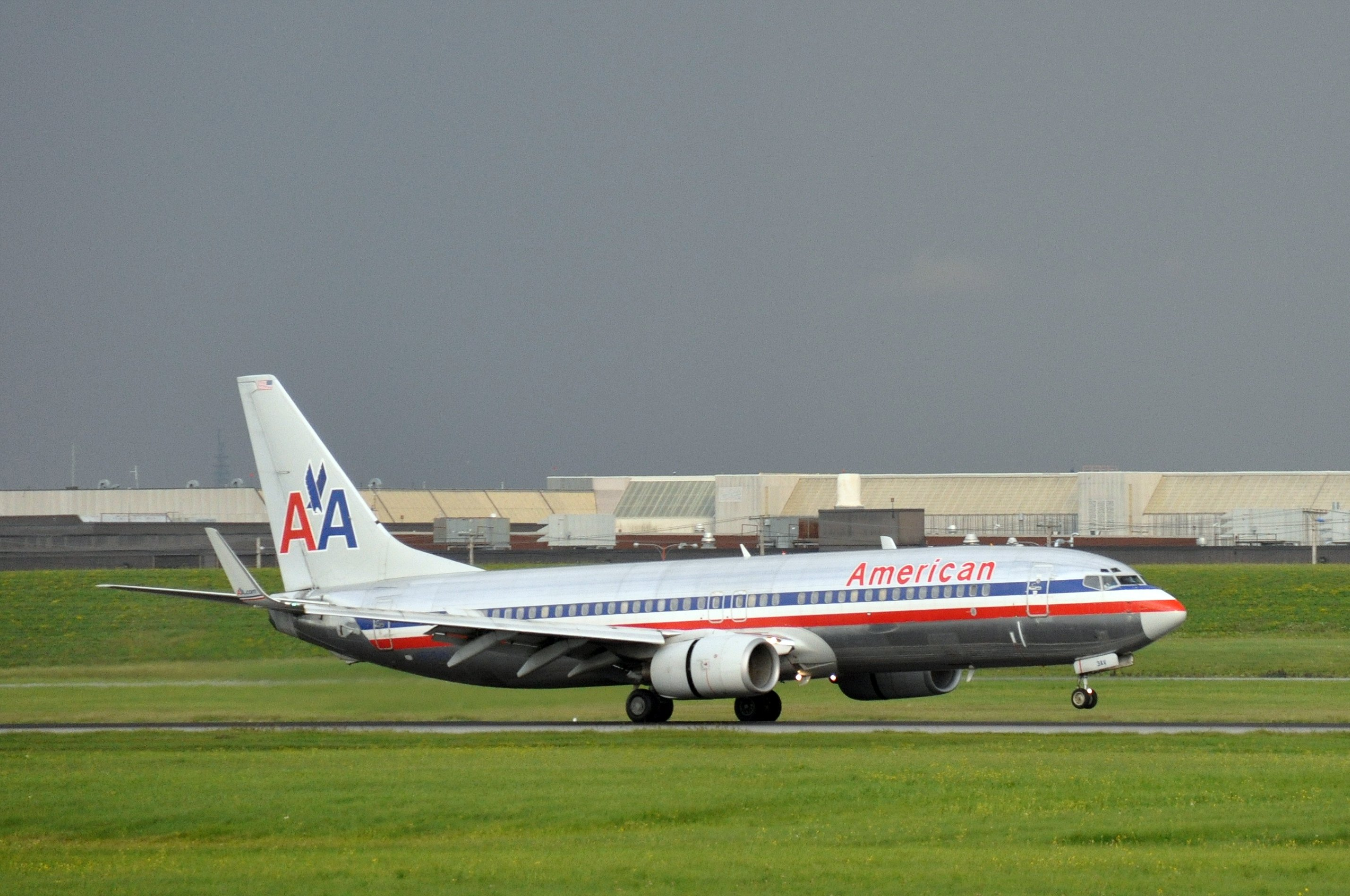 American Airlines Boeing 737 on 24 R at Montréal-Pierre Elliott Trudeau International Airport (YUL)